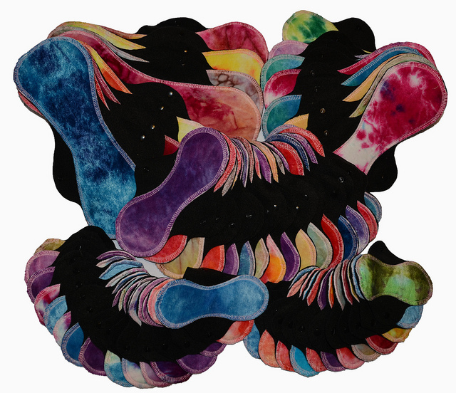 Modern reusable cloth pads for sanitary or continence use.